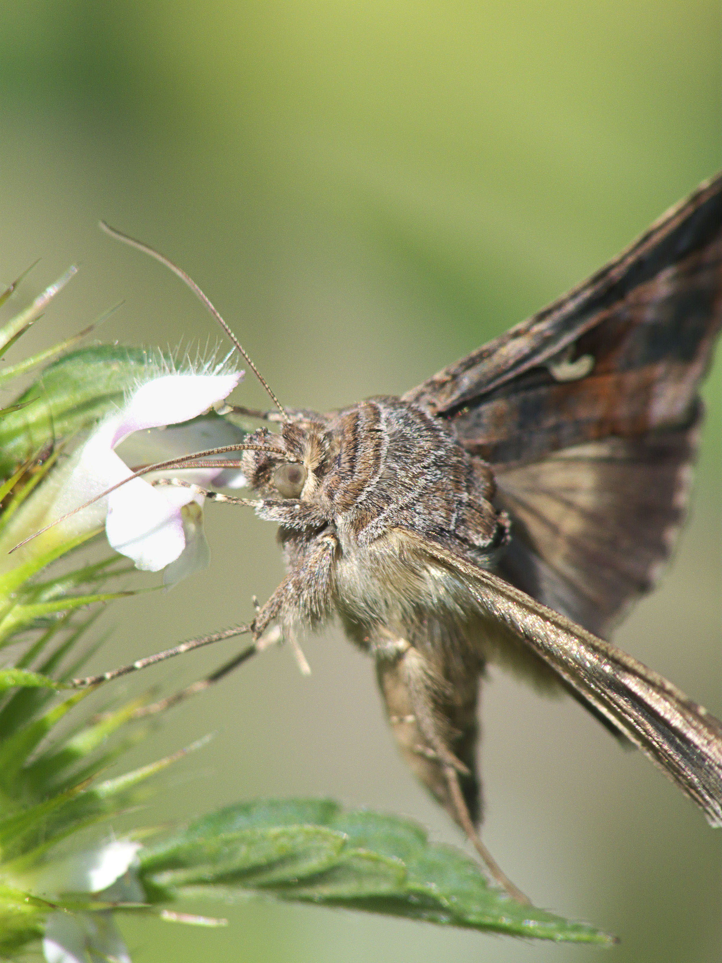 Autographa gamma at Galeopsis tetrahit